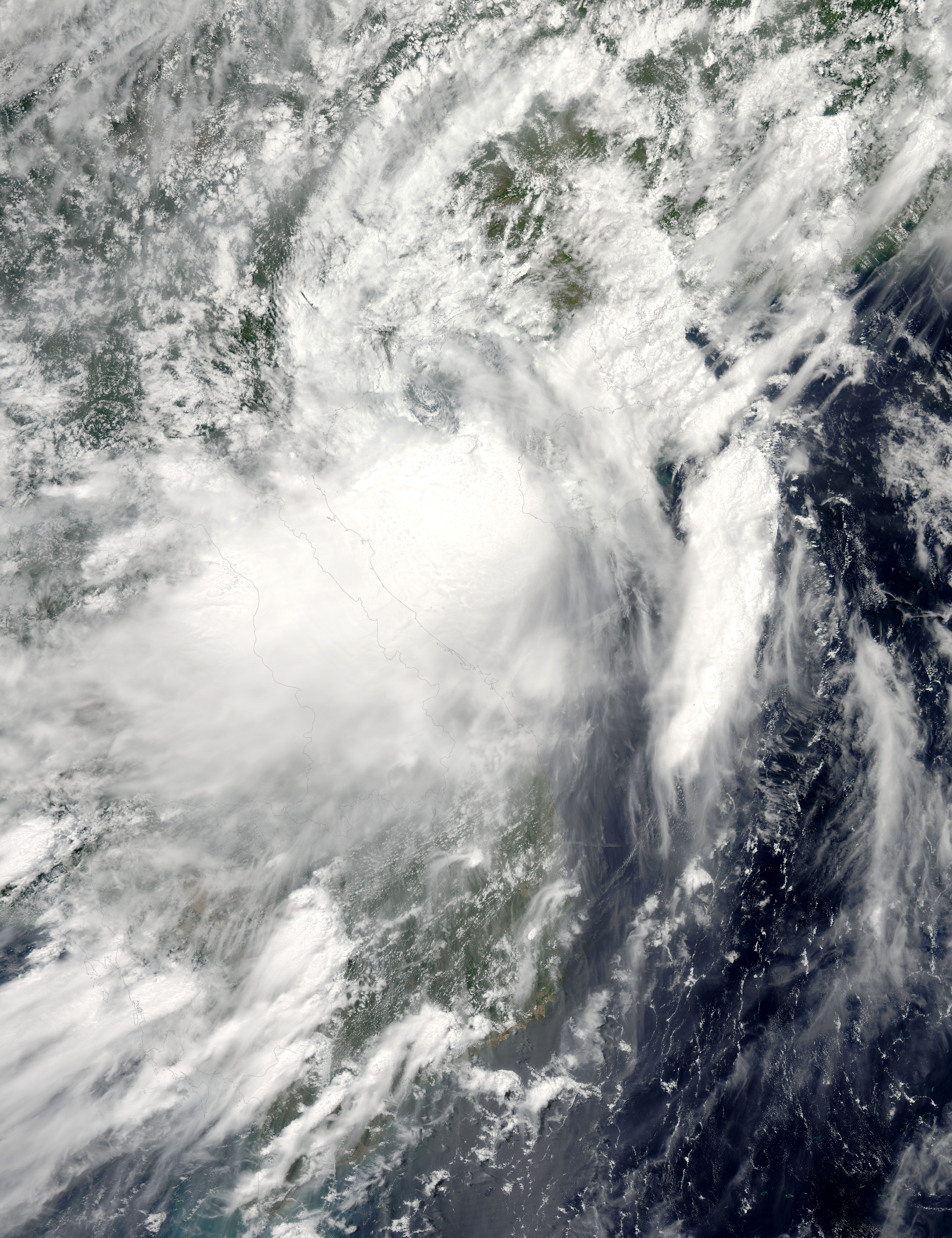 Tropical Storm Conson nearing landfall on Vietnam.